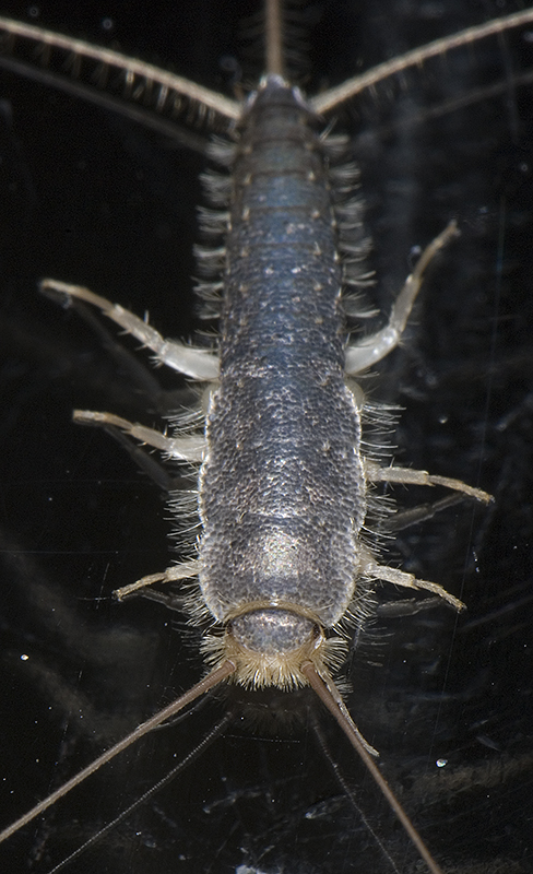 Silverfish. Probably of genus [i]Ctenolepisma[/i], possibly species [i]C. longicaudata[/i] ("Grey Silverfish").